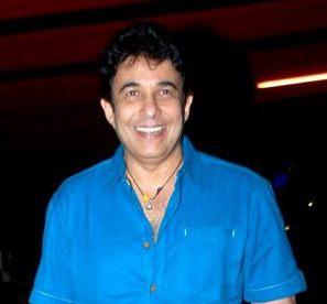 Deepak Tijori at wrap up bash of Raja Natwerlal